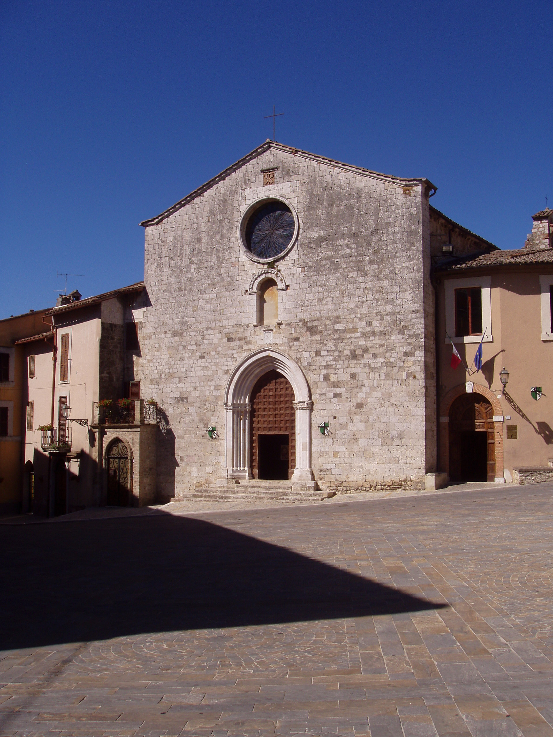 Piazza San Francesco in medieval times was the market area outside the city walls.